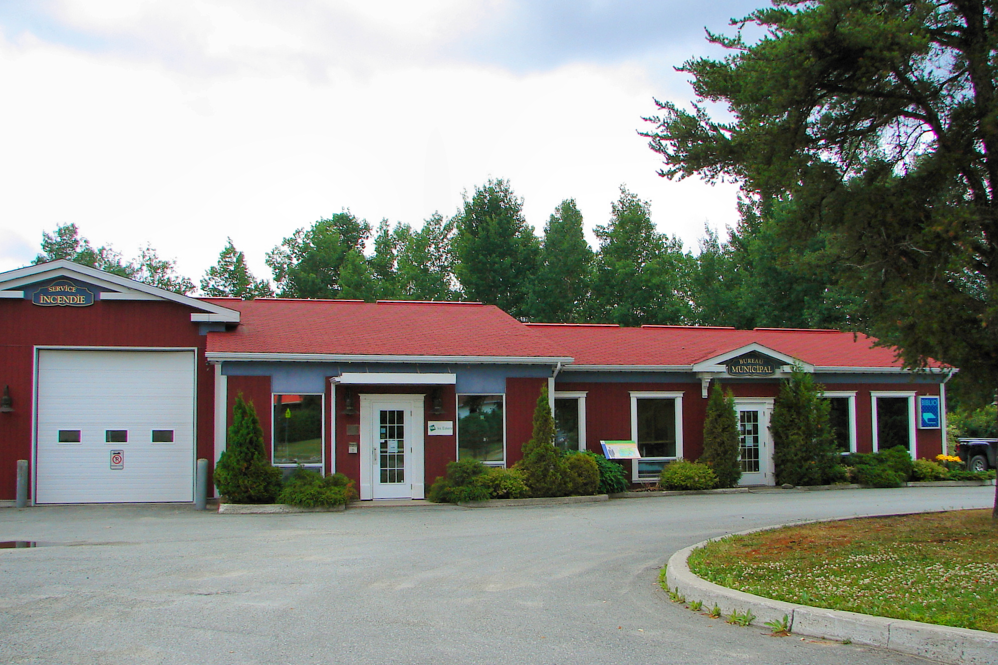 Municipal office of Preissac, Quebec, Canada